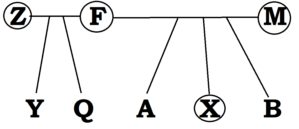 Diagram illustrating example of order of succession in South African law.